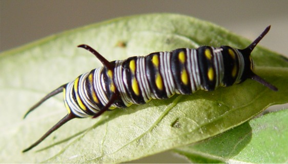 Danaus gilippus caterpillar on milkweed